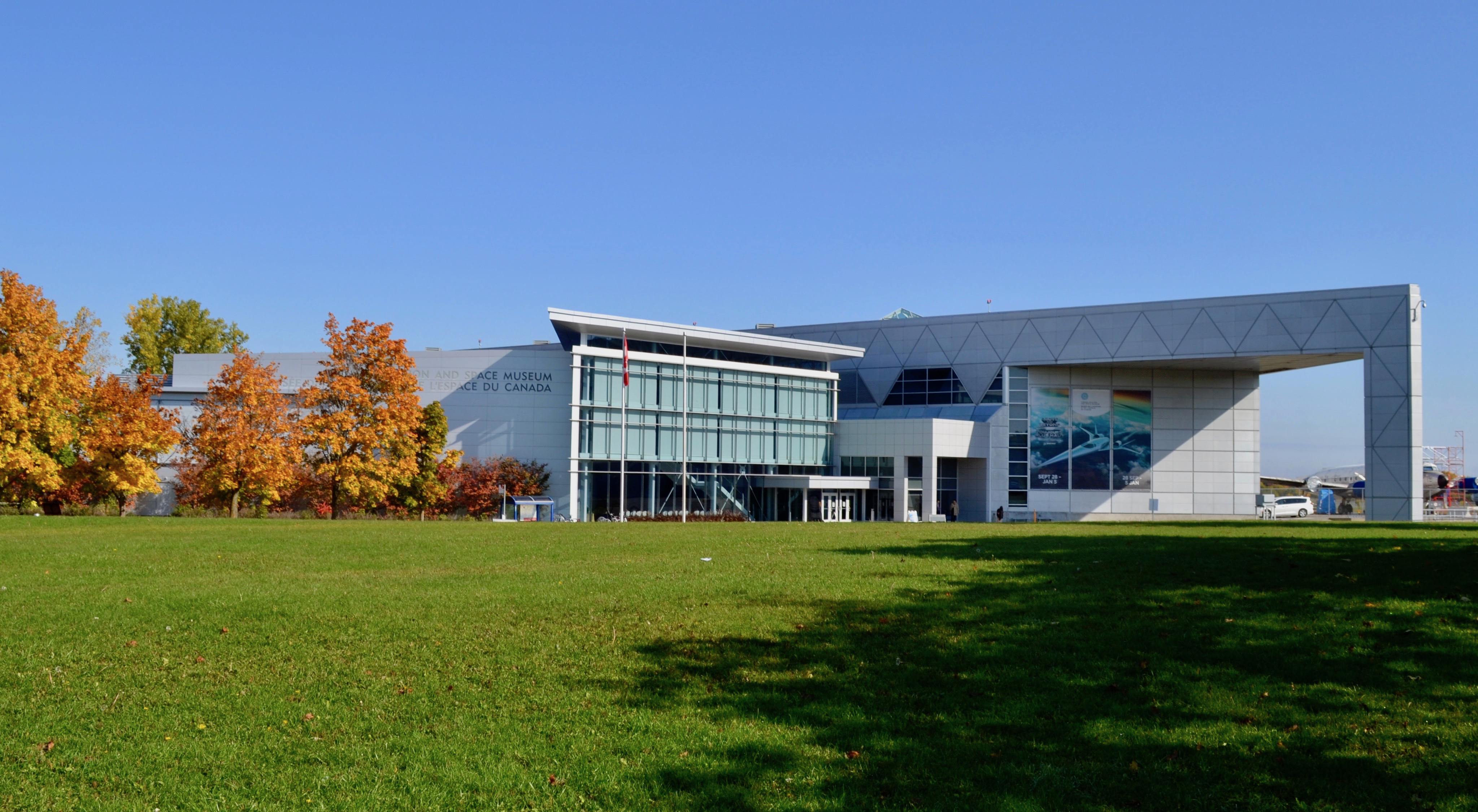 Main building of the Canada Aviation and Space Museum in mid-October 2019